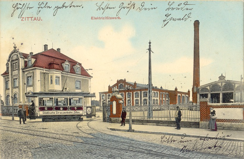 picture postcard with electric power station and tram, Zittau Germany